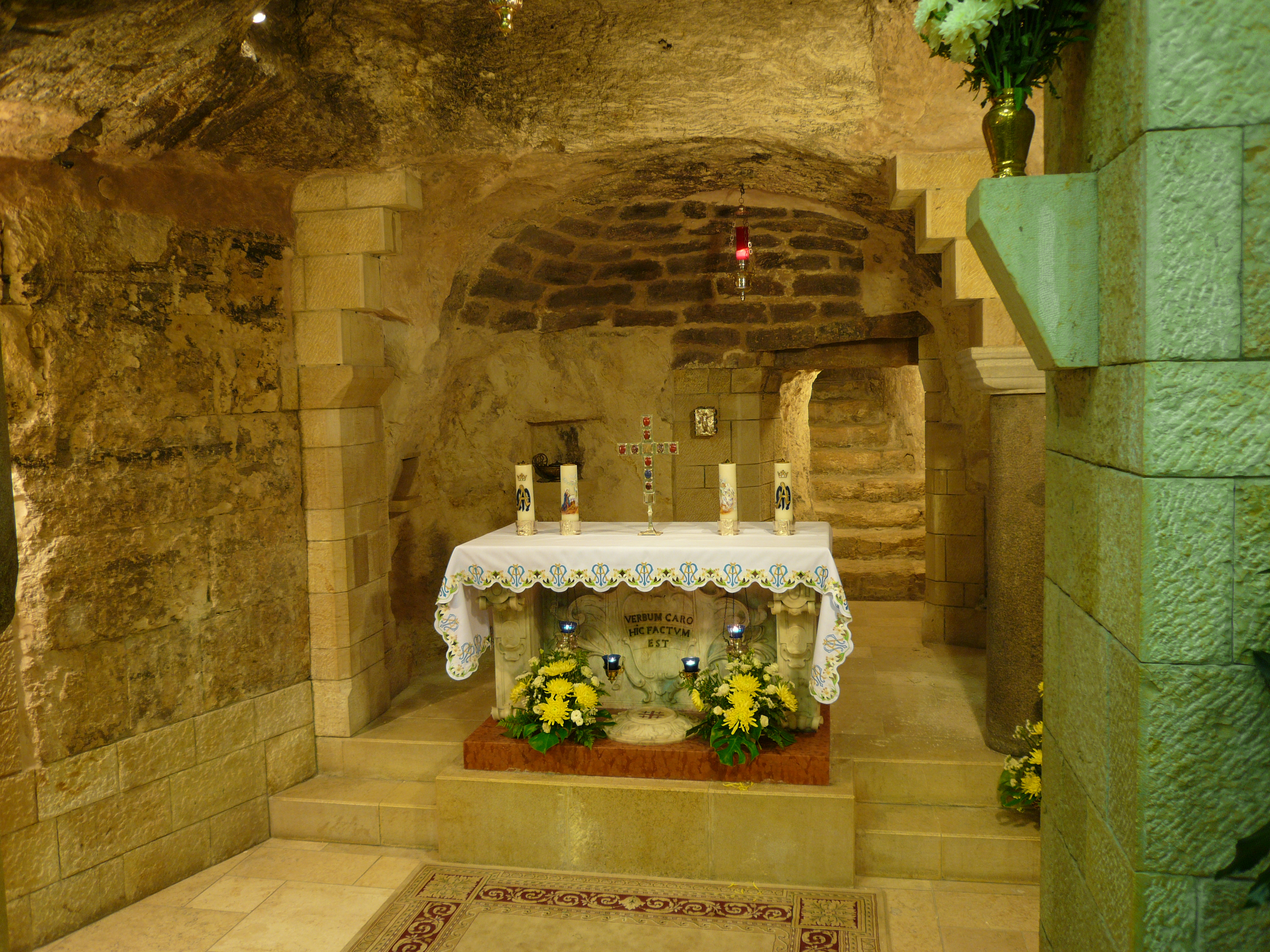 Cave of annunciation in the basilica of Nazareth